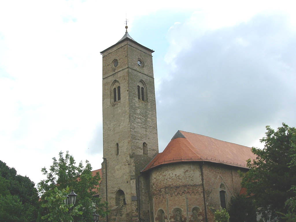 The Franciscan Church in Bač.